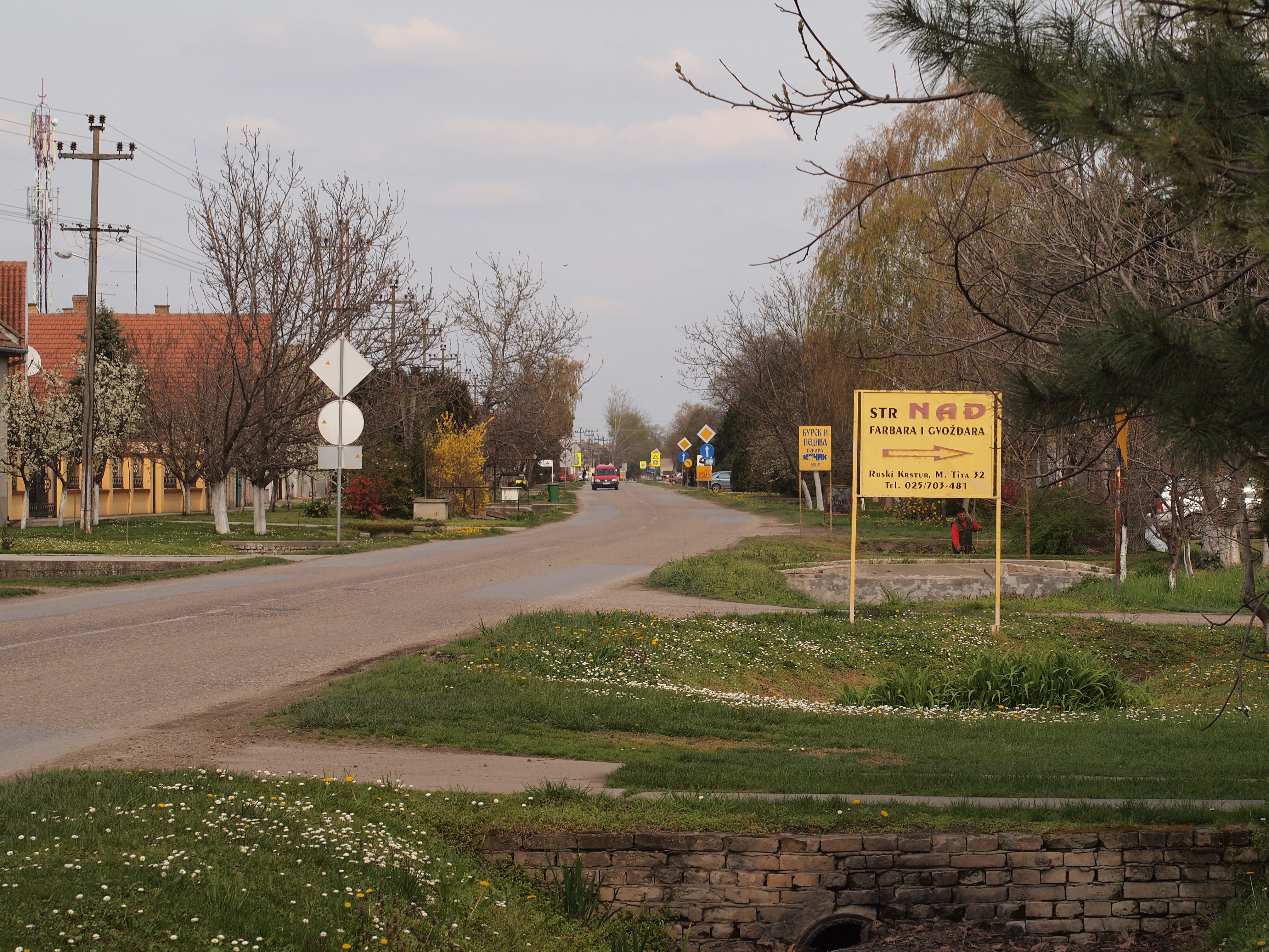 Ruski Krstur, Vojvodina, Serbia. (Time in EET.)